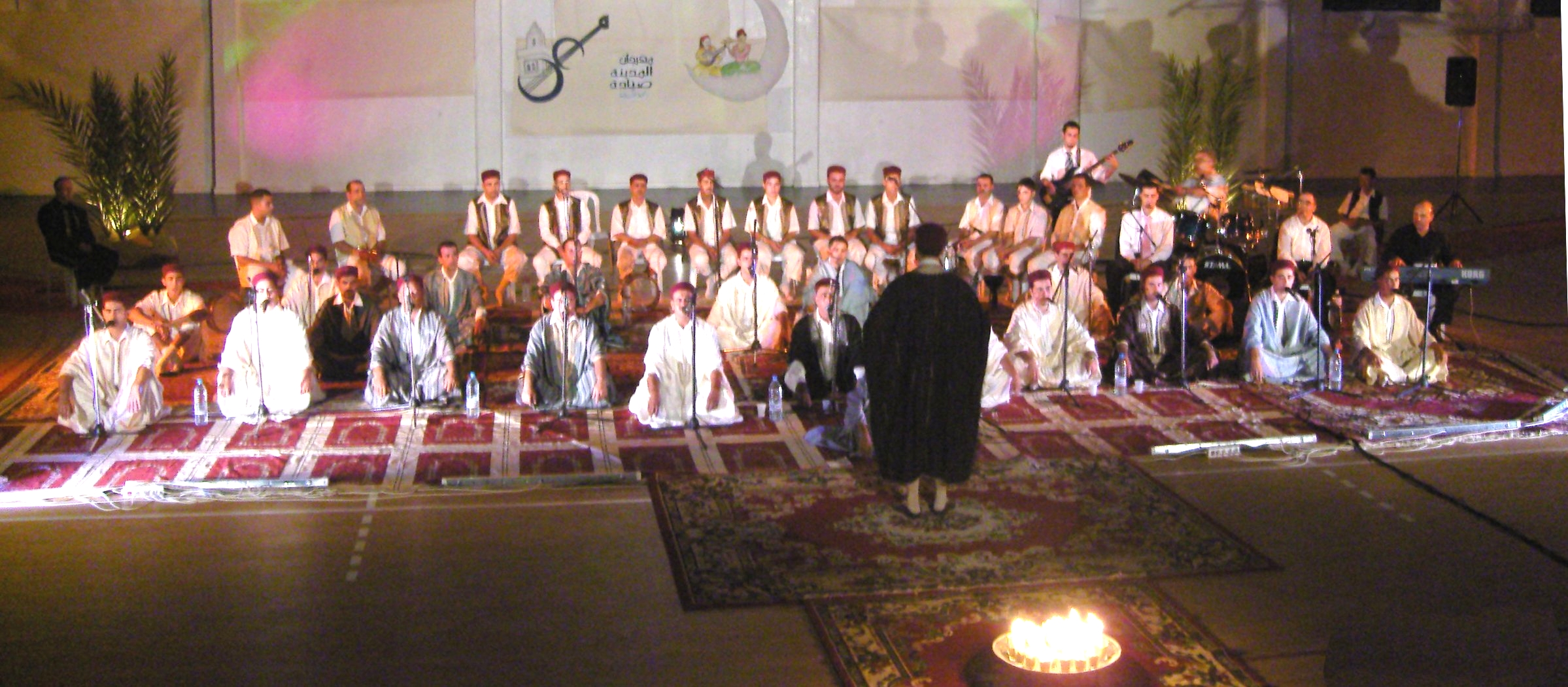 Medina's festival Sayada.